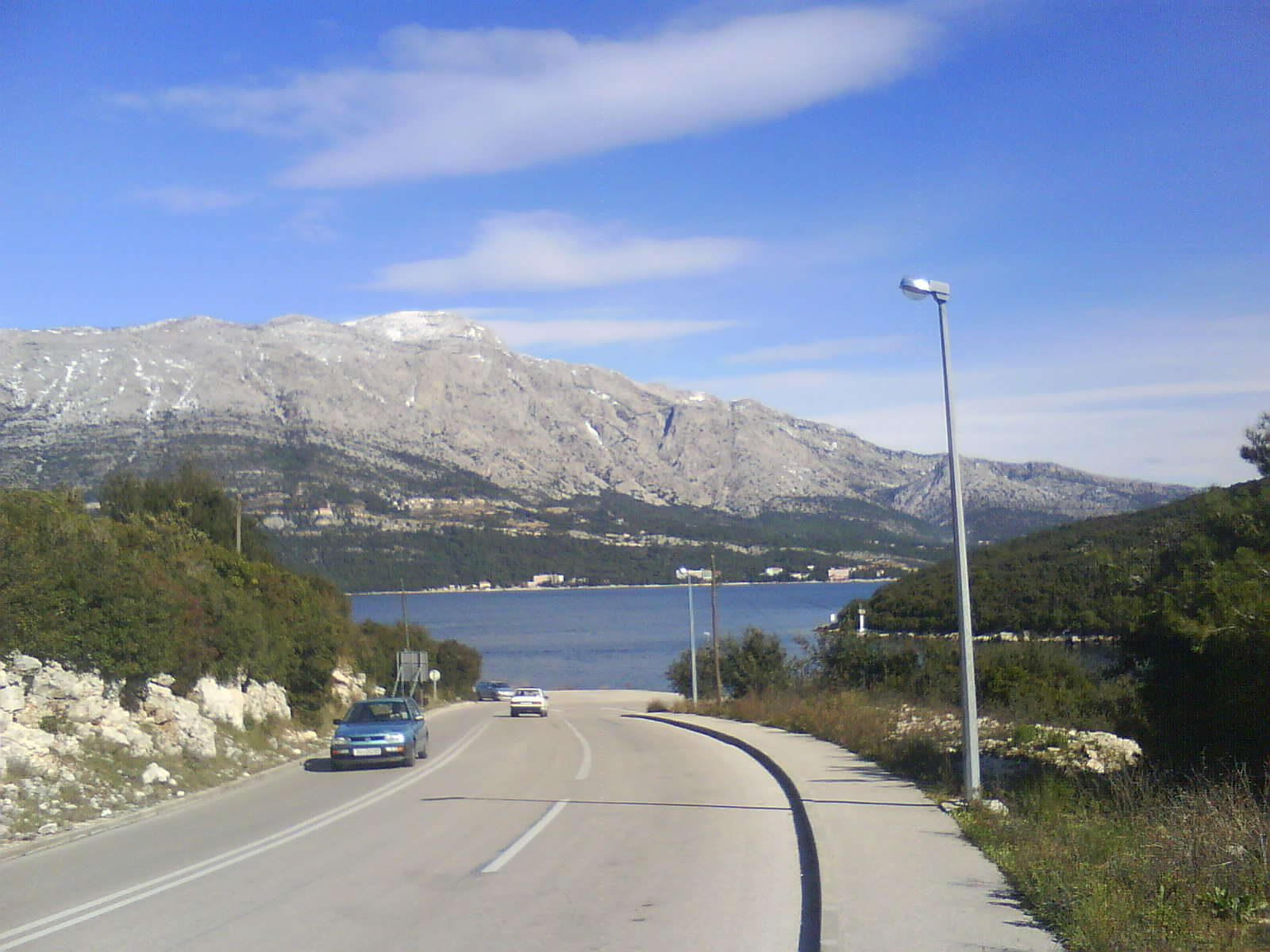 city of Korčula